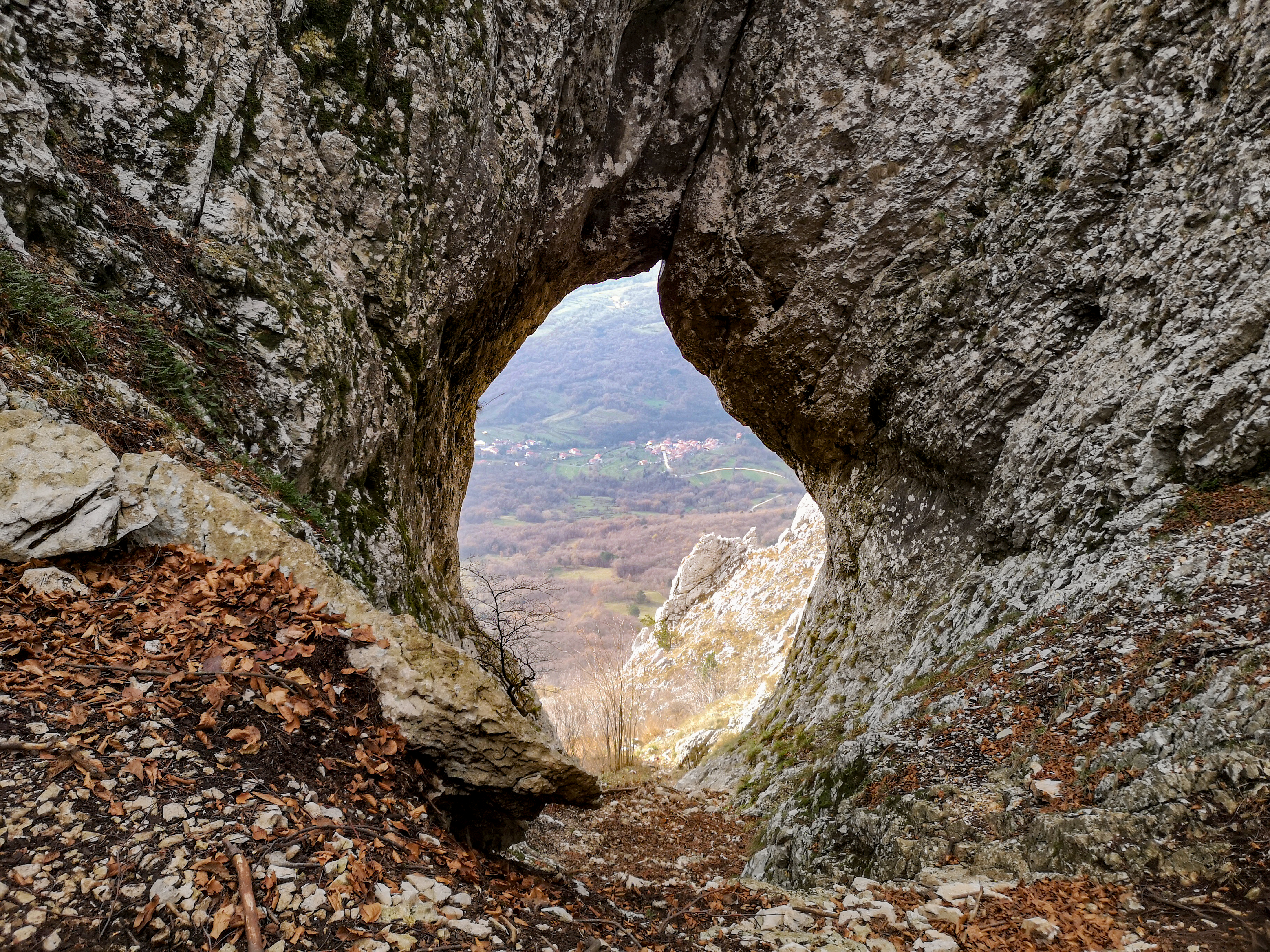 View of Lokavec through the Big Otlica Window.